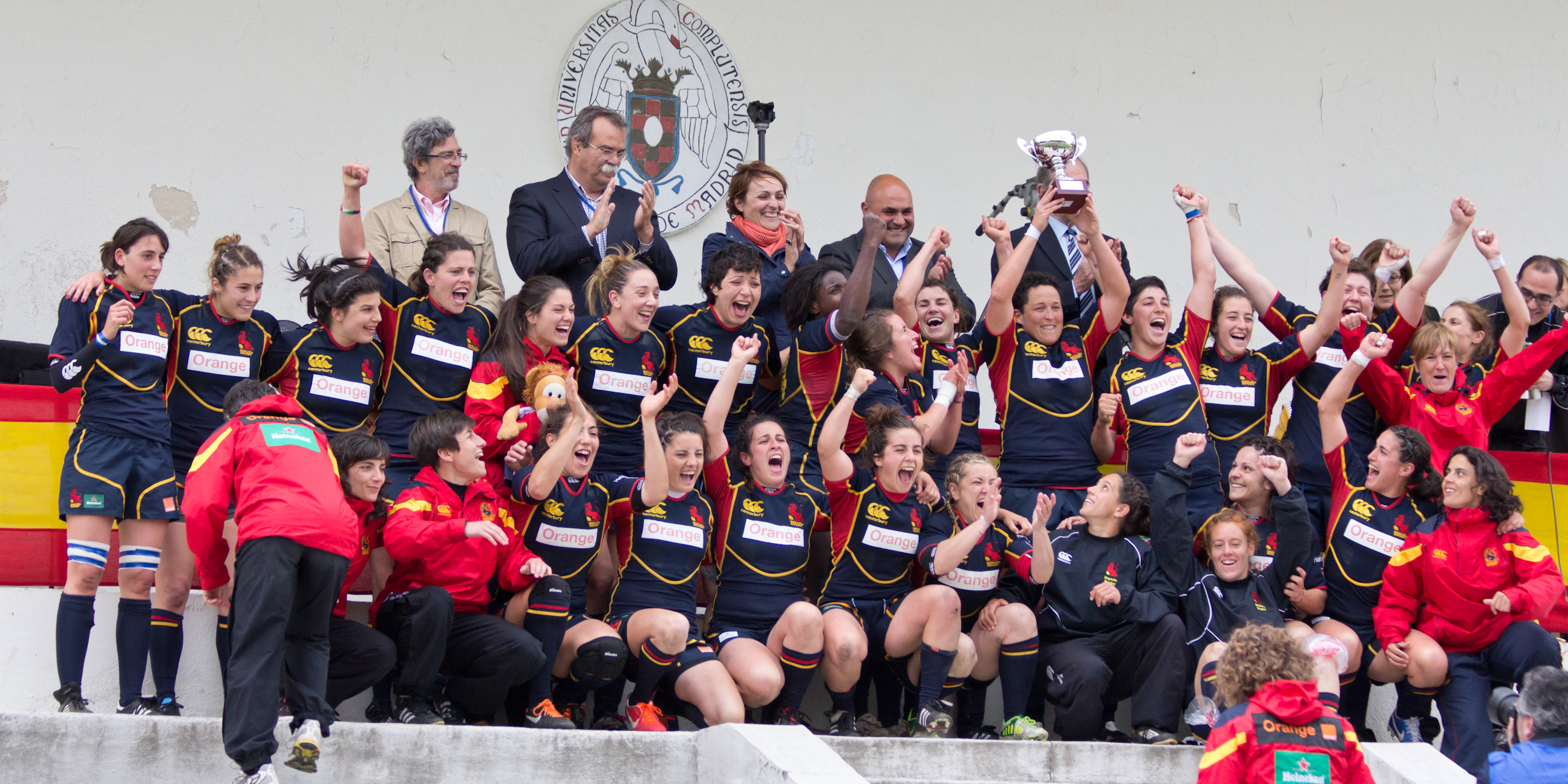 Spain national rugby union team celebrating victory at the 2013 Women's European Qualification Tournament for WRWC France 2014.